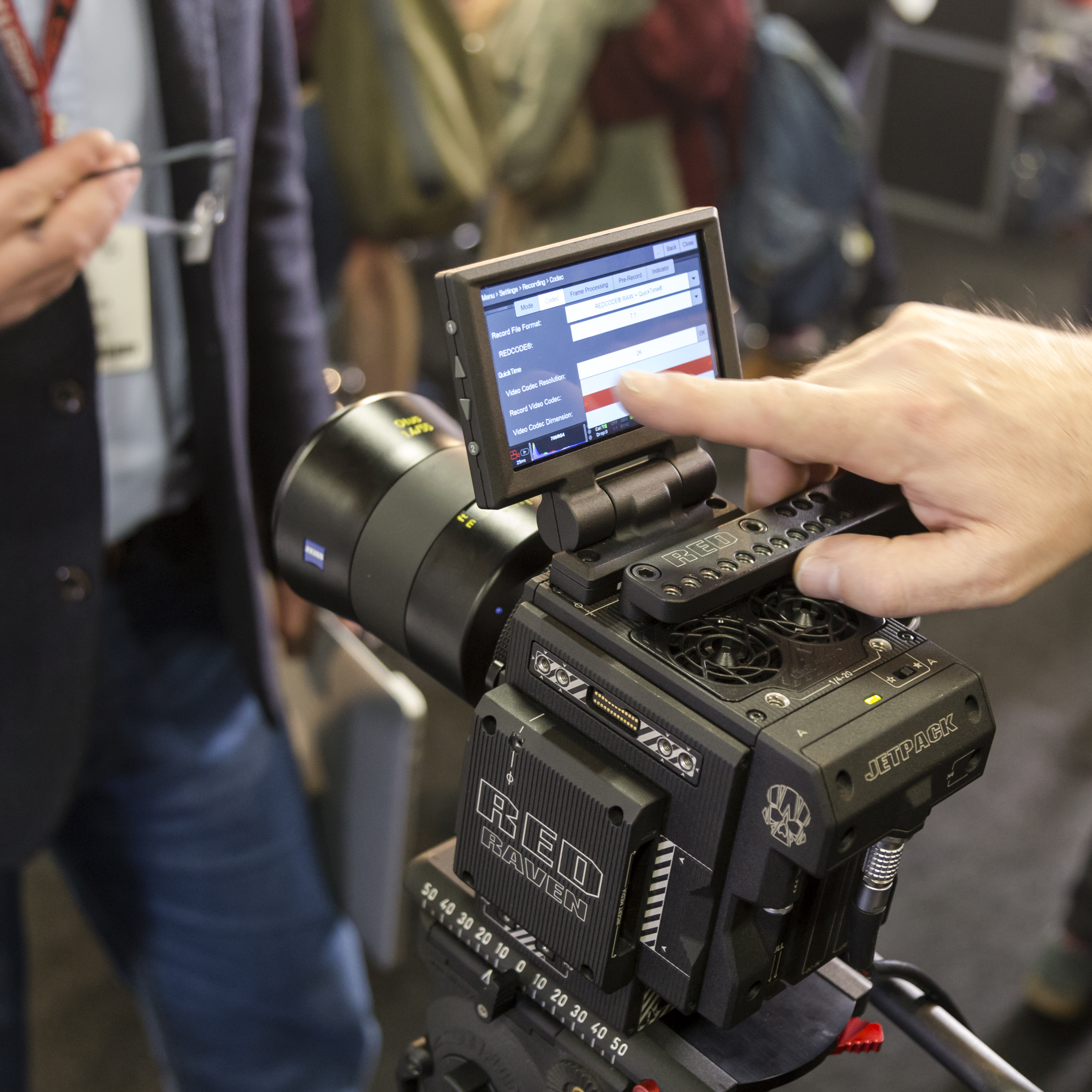 RED Digital Cinema Raven camera as seen at the BSC Expo 2016